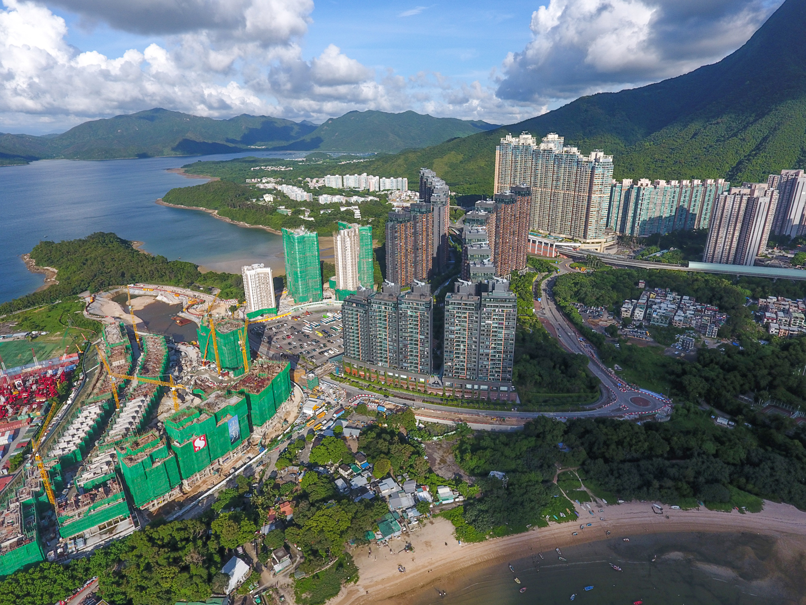 Lok Wo Sha